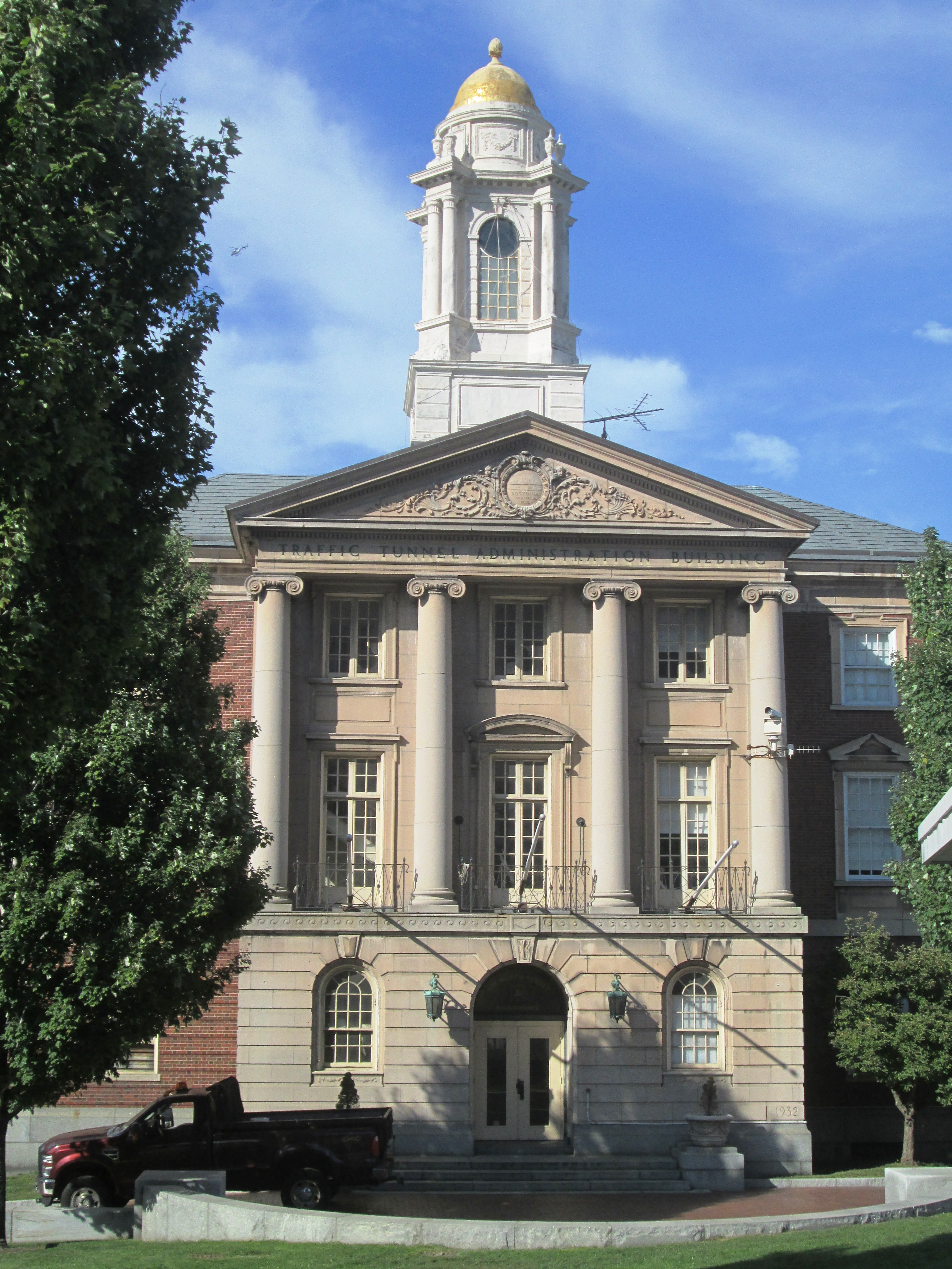 The Traffic Tunnel Administration Building, also known as Boston Police Station Number One, located at the intersection of North Street and Cross Street in the North End neighborhood of Boston, Massachusetts, was built in 1931 and was designed by John M. Gray in the Georgian Revival style. It was added to the National Register of Historic Places in 2015.